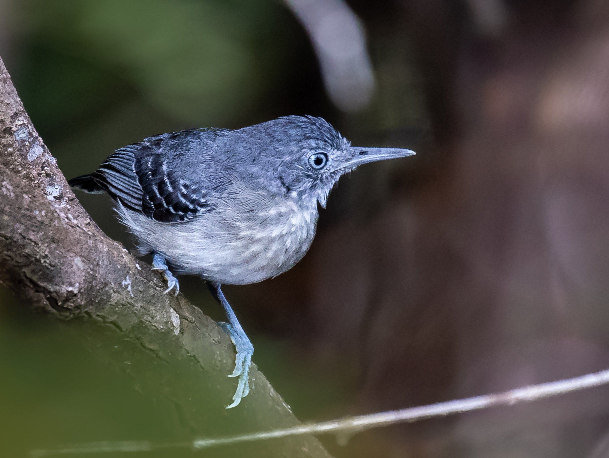 Black-chinned Antbird (female), Anavilhanas islands, Novo Airão, Amanazonas, Brazil